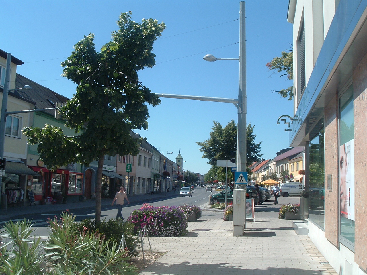 Neusiedl am See, Austria